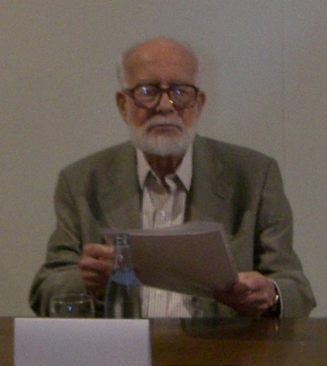 Anthony Bonner